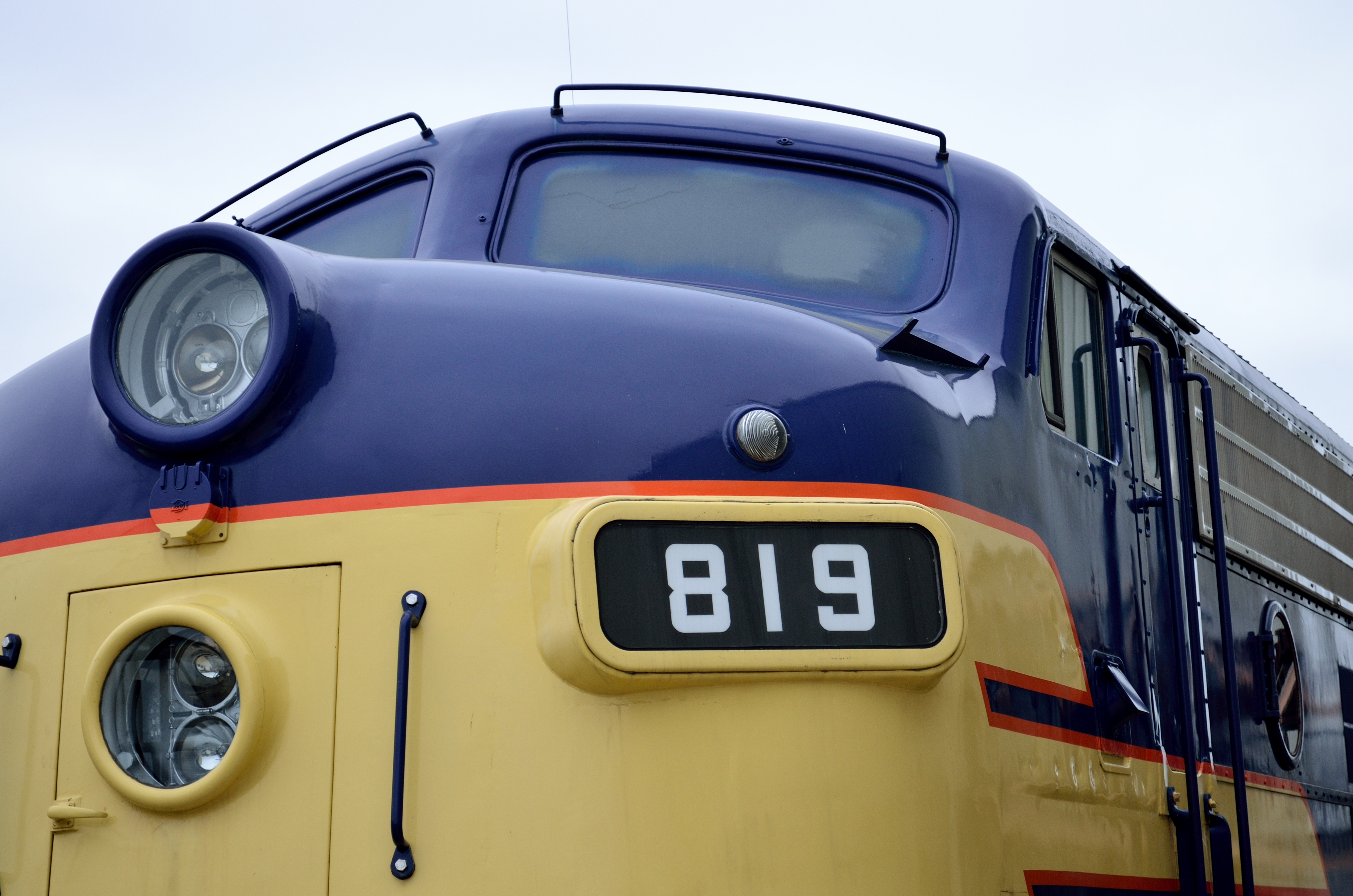 An EMD F7A locomotive with a Mars Light oscillating beacon in the lower lamp housing below the main twin beam headlight up top. Photographed at the Tennessee Central Railway Museum, Nashville, Tennessee, United States, in December 2012.